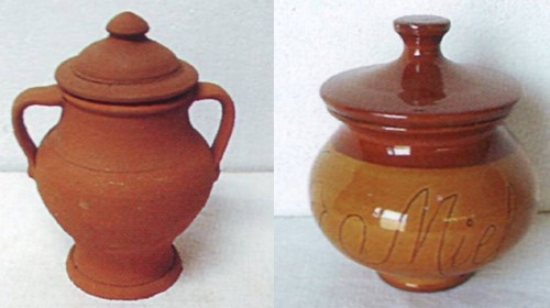 Receptacles to keep honey in, or to serve it from. Other names: 'mielera', 'parrón', 'orza de miel'.